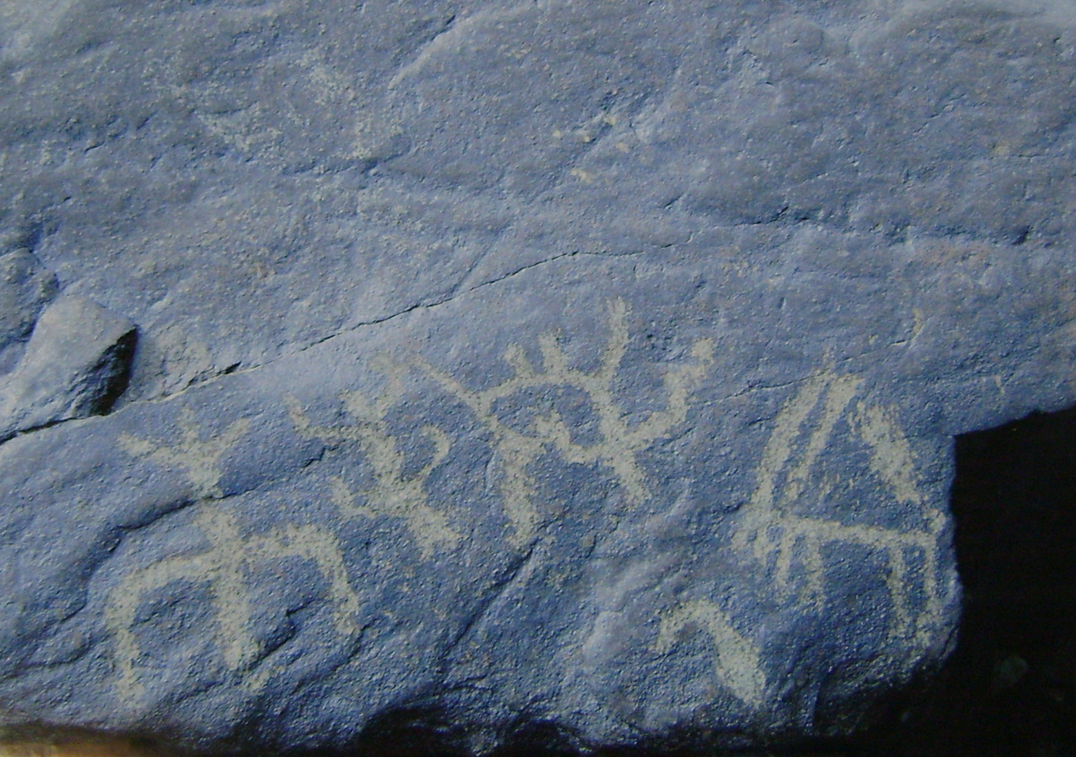 Nakhchivan_Gemigaya_stone_open-air_museum